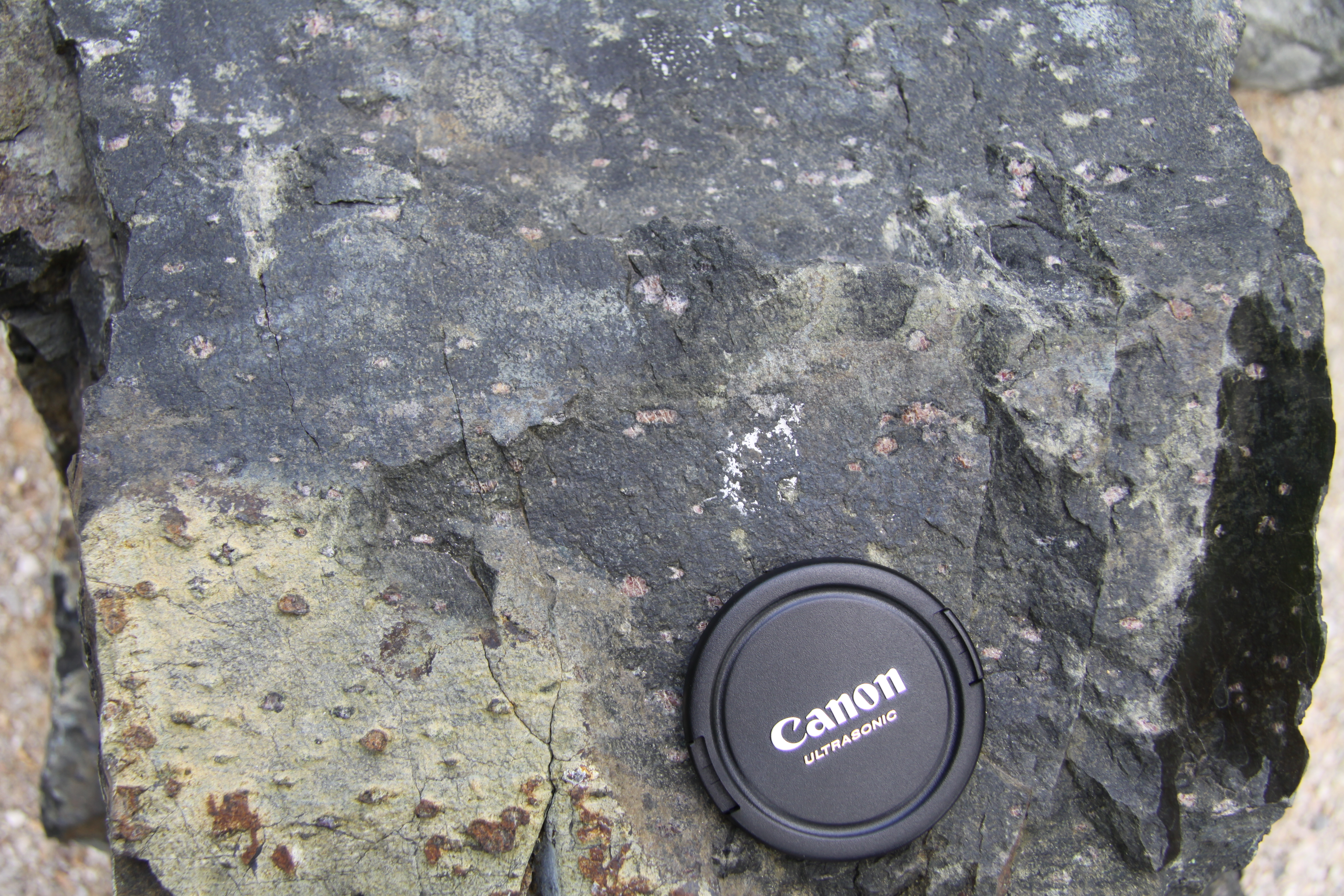 Peridotite in Geopark in botanic garden on Albertov, Prague, Czech Republic.